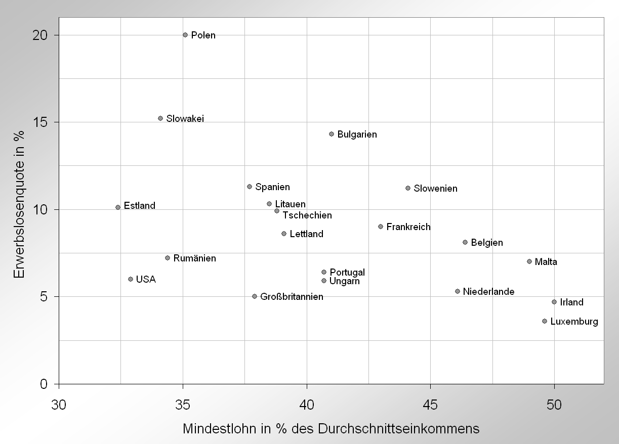 Chart for the minimum wage and unemployment rate in 20 countries. Data from 2004 (France 2006).